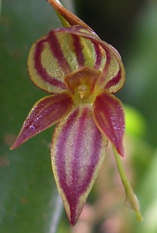 Please report references to .